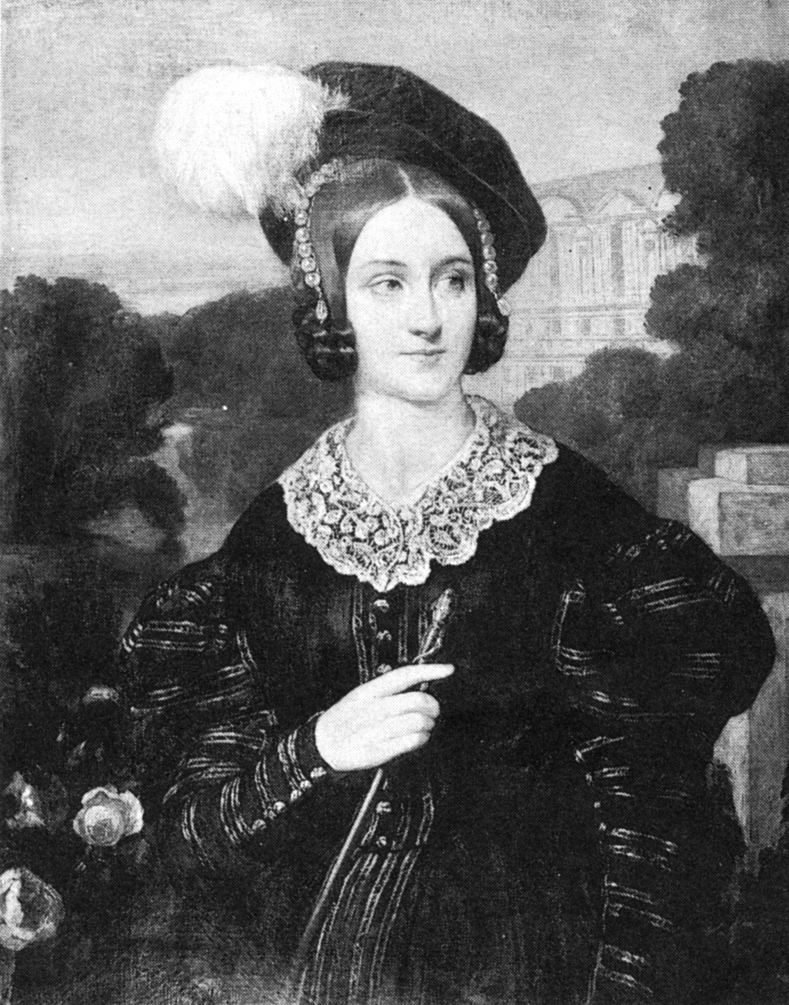 Julie Dorus-Gras, soprano, as Marguerite de Valois in Meyerbeer's Les Huguenots, a role she created at the Paris Opera.